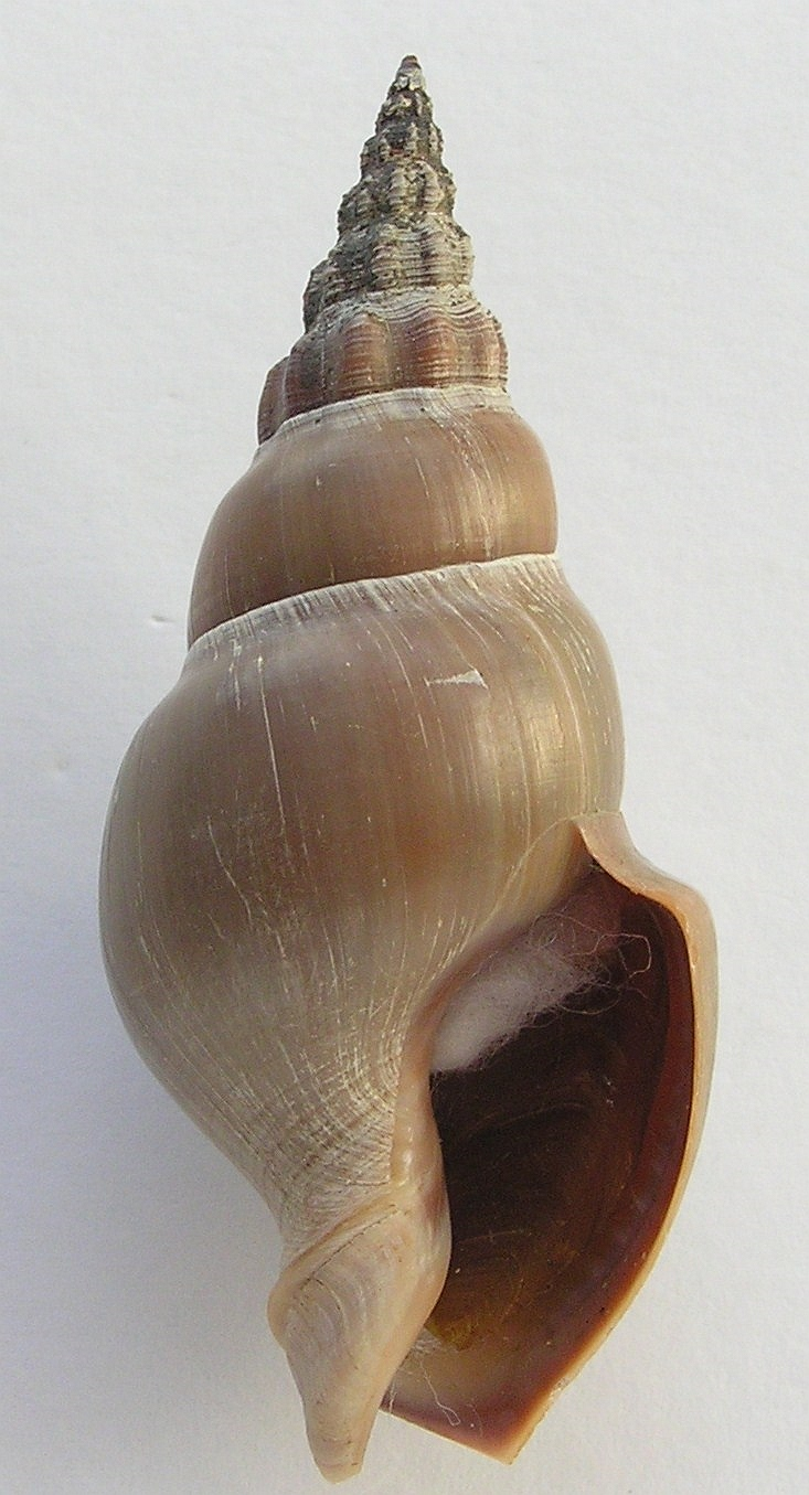 Northia northiae, a true whelk from the family Buccinidae; Panama